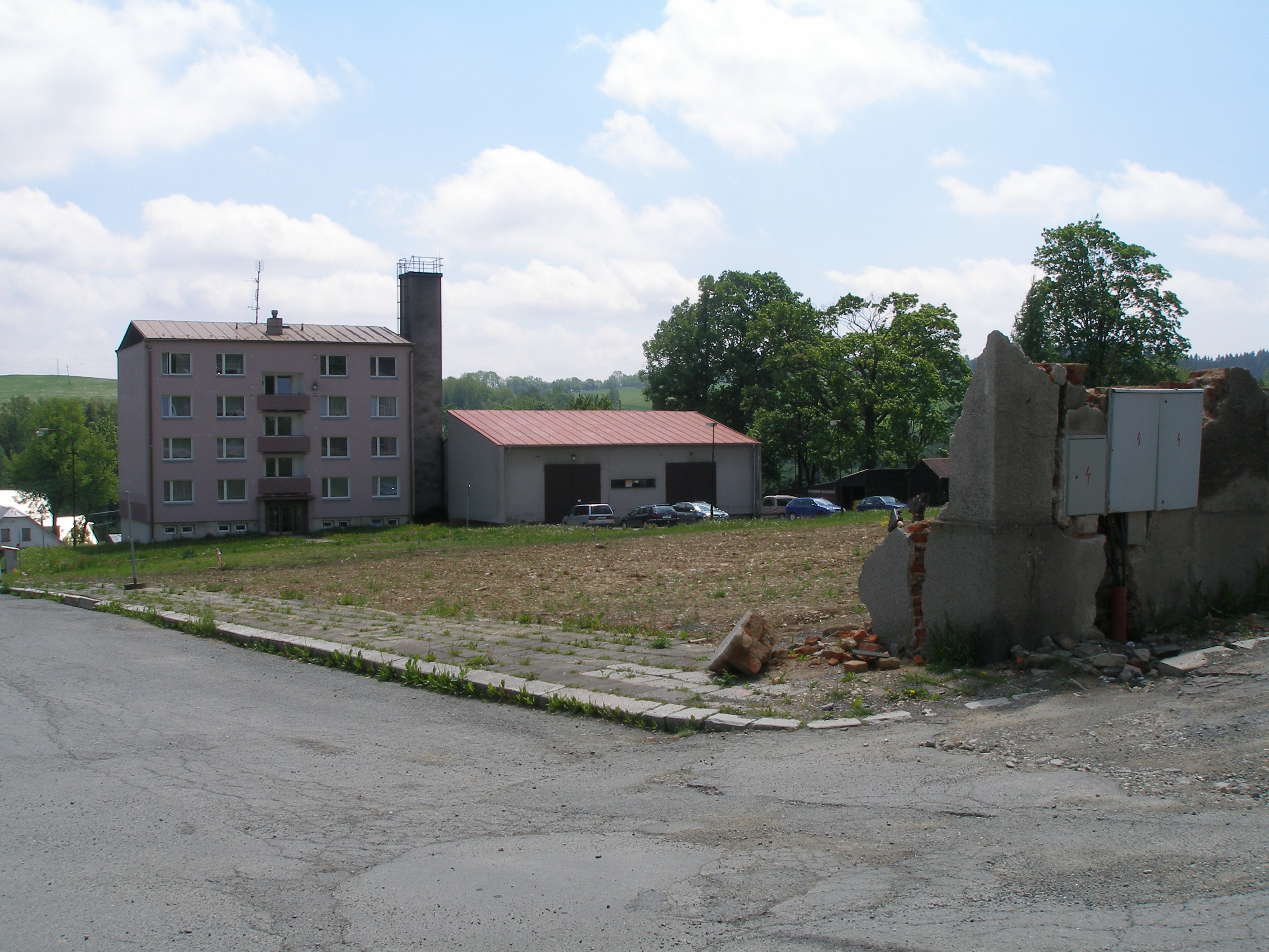 Destroyed South-Western side of the square in Město Libavá